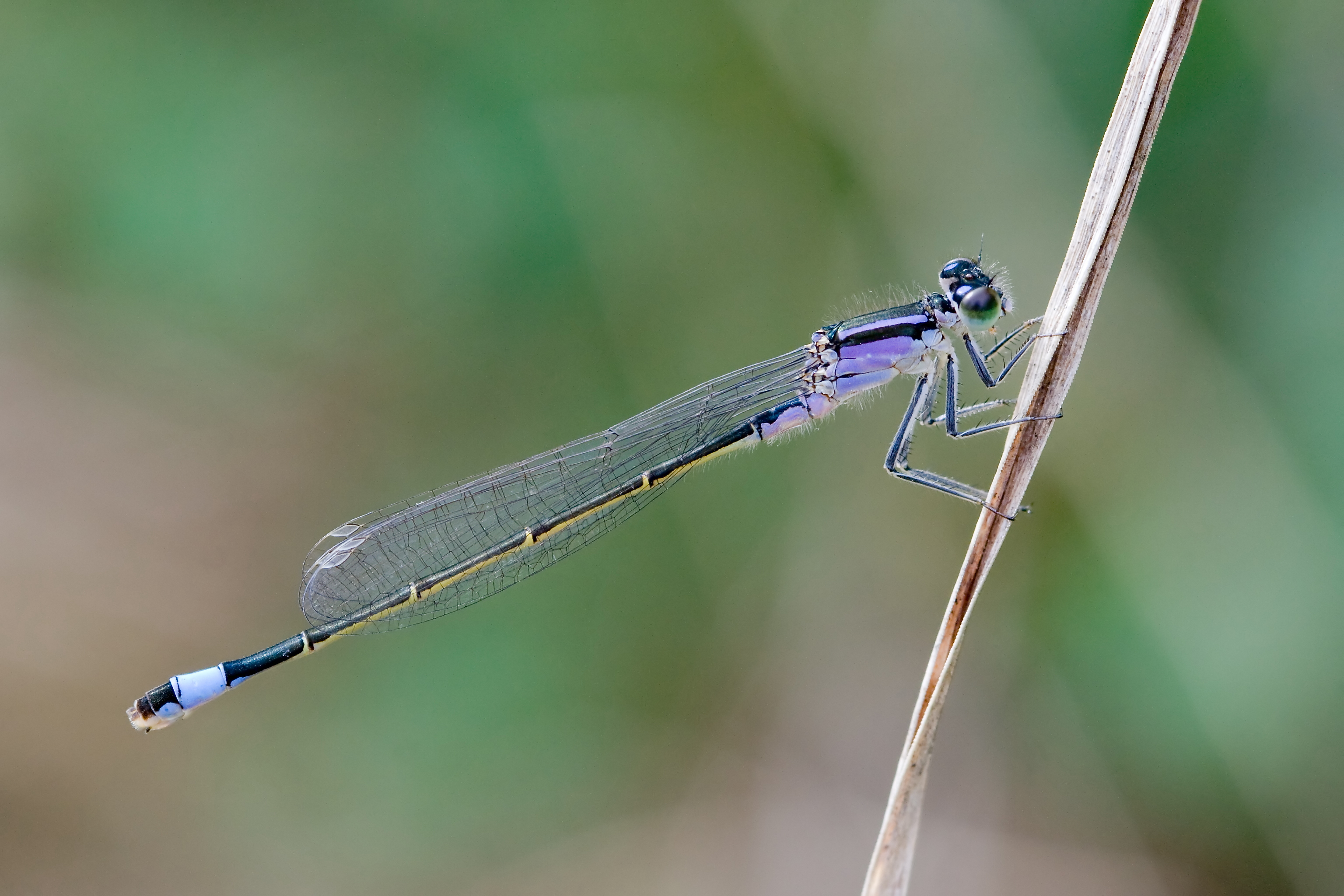 Female of the Blue-tailed Damselfly (Ischnura elegans f. violacea) near Most-Raša, Istria, Croatia. This female shows a transition state between the youth color morph violacea and the androchrome (male colored) age form typica.